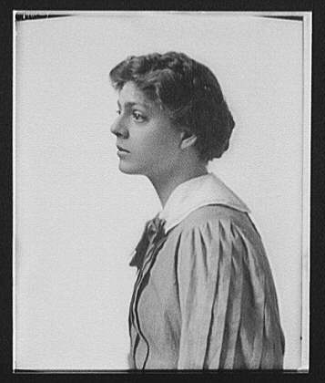 Ethel Barrymore, half-length portrait, profile facing left.